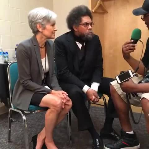 Jill Stein with Cornel West at the 2016 RNC